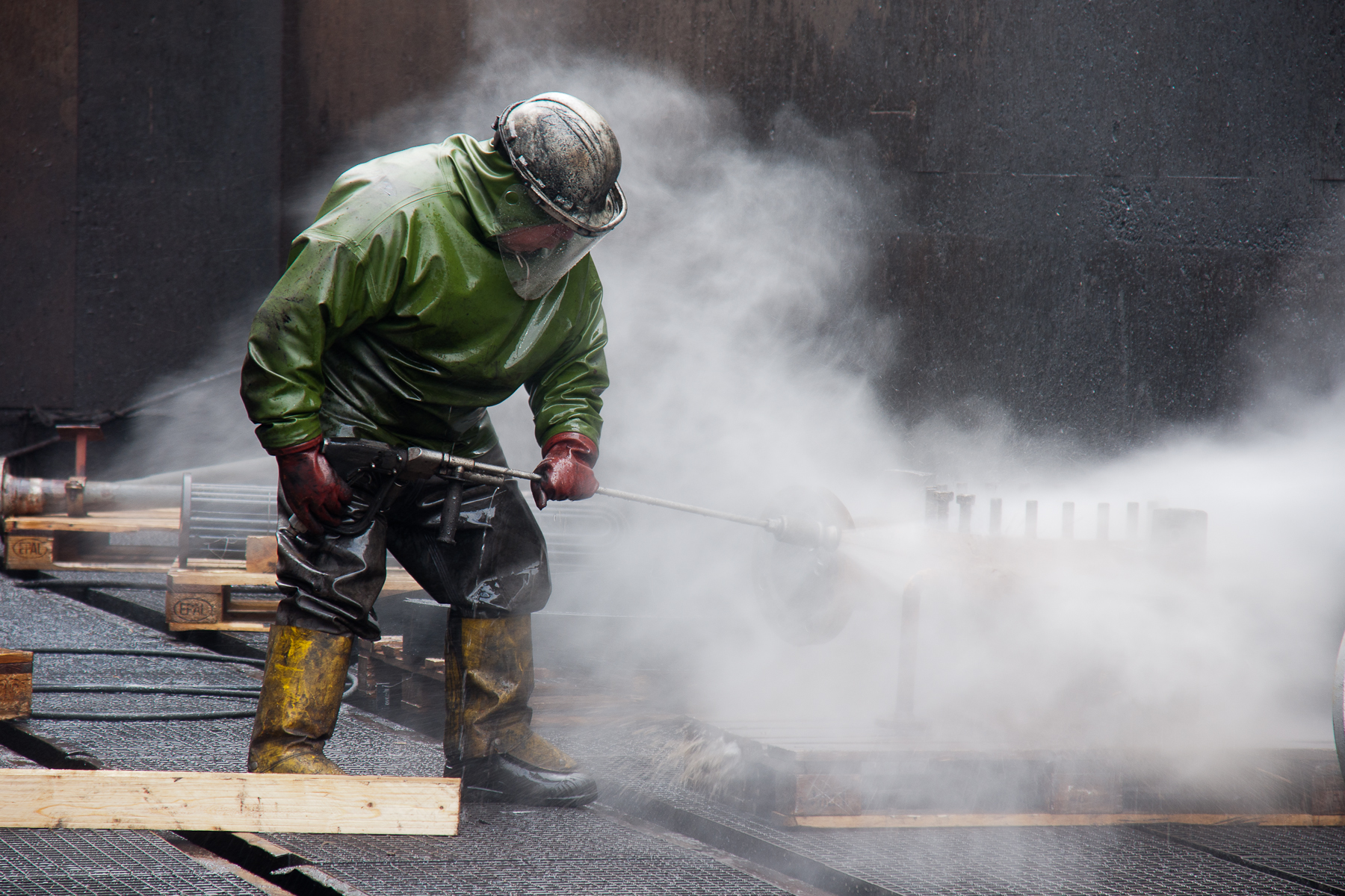 High pressure cleaning of pressure vessel parts in the chemical industry